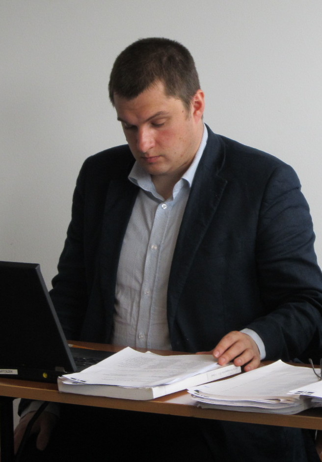 Pawel Bartoszek and Guðmundur Gunnarsson (2011)